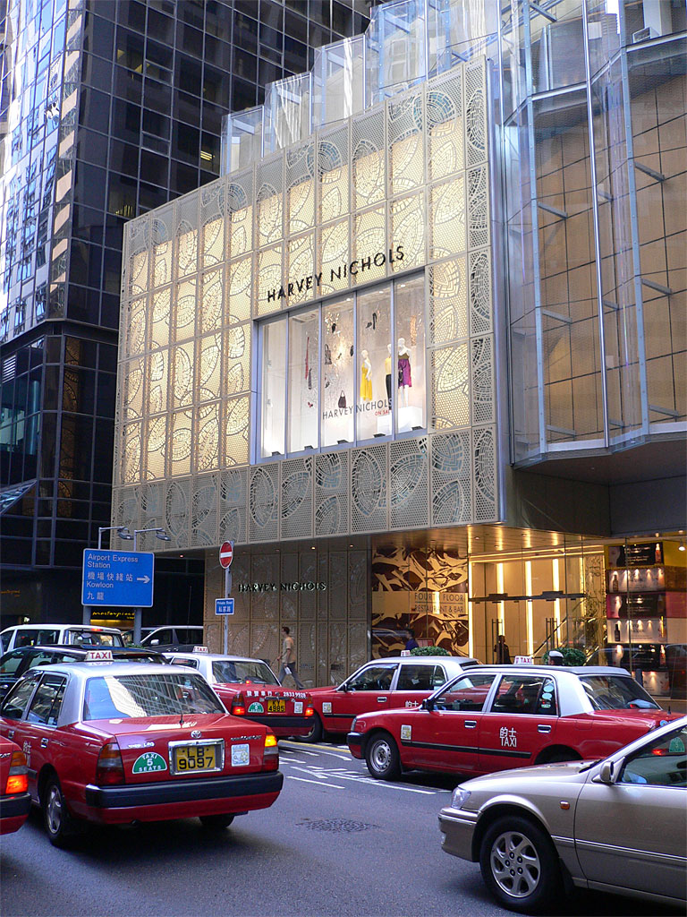 Harvey Nichols shop in The Landmark, Central, Hong Kong